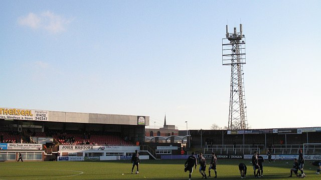 1950s mobile 'phone mast One of the floodlight pylons at Edgar Street, which will probably survive the rebuilding of the ground, should that ever happen. The pylons were made locally by Painter's who had a pylon building factory just north of here. They were amongst the first installed at any football ground. There is a rumour that they were first erected at the 1951 Festival of Britain and later moved back home to Hereford. I have no evidence for this. Beyond the field, is the extension to a 1960s stand, containing the laundry (hard work when your shirts are white) and the low terrace of the Blackfriars end. The corner is occupied by the ruin of the social club, burnt down in some sort of protection scam in the 1990s.